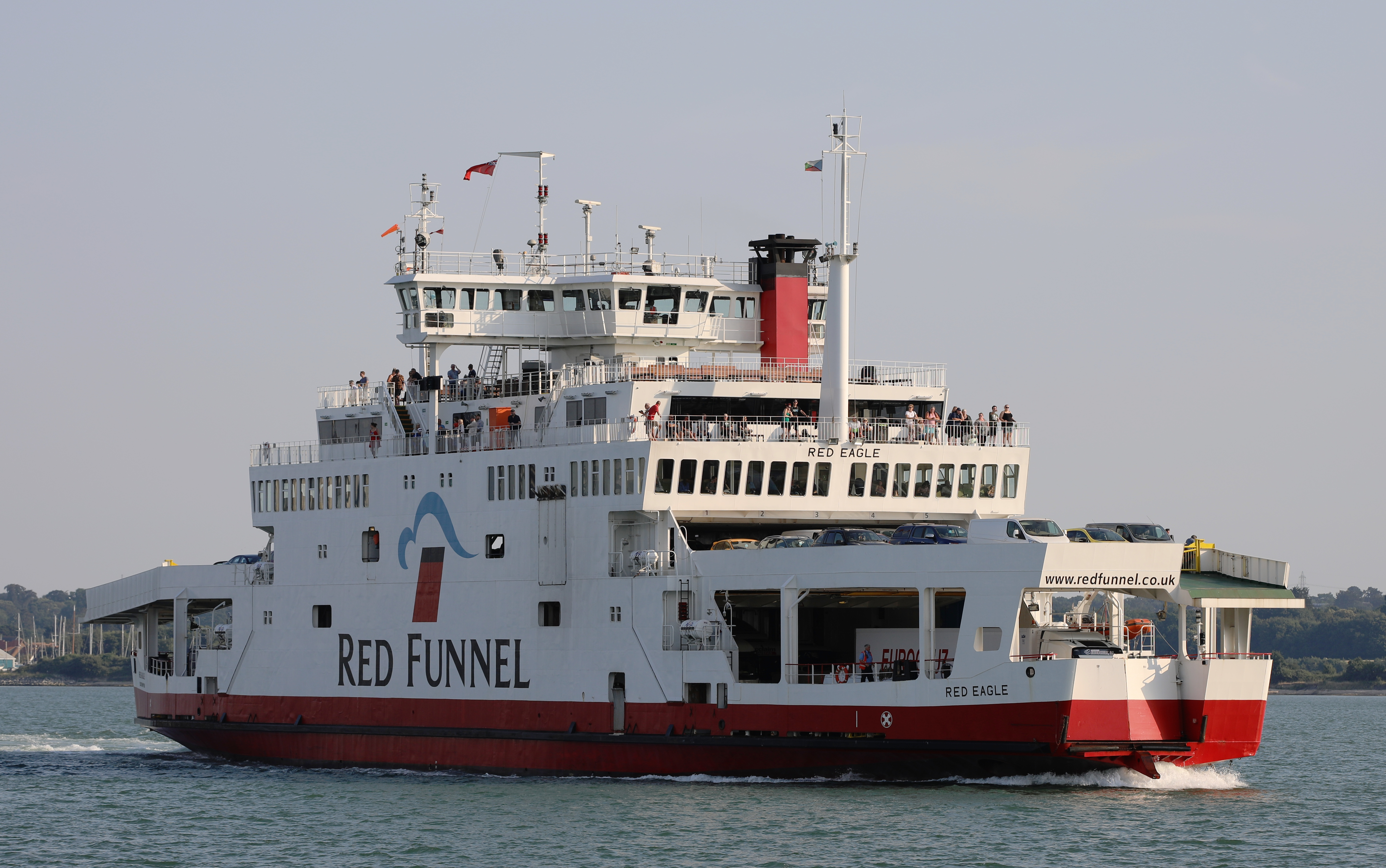 MV Red Eagle in 2018 IMO Number: 9117337 MMSI Number: 232002589